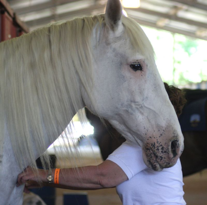 This mature Andalusian has undergone progressive pigment loss in the hair due to the gray gene and has the additional, more uncommon condition known as vitiligo: progressive pigment loss in the skin. Superficially similar mottling is characteristic of the "champagne" gene and leopard complex. Vitiligo in horses is sometimes called "pinky" or "Arabian fading syndrome."